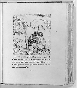 Painting by Pierre Bonnard